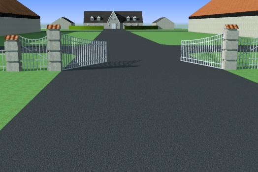 Øland-Attrup